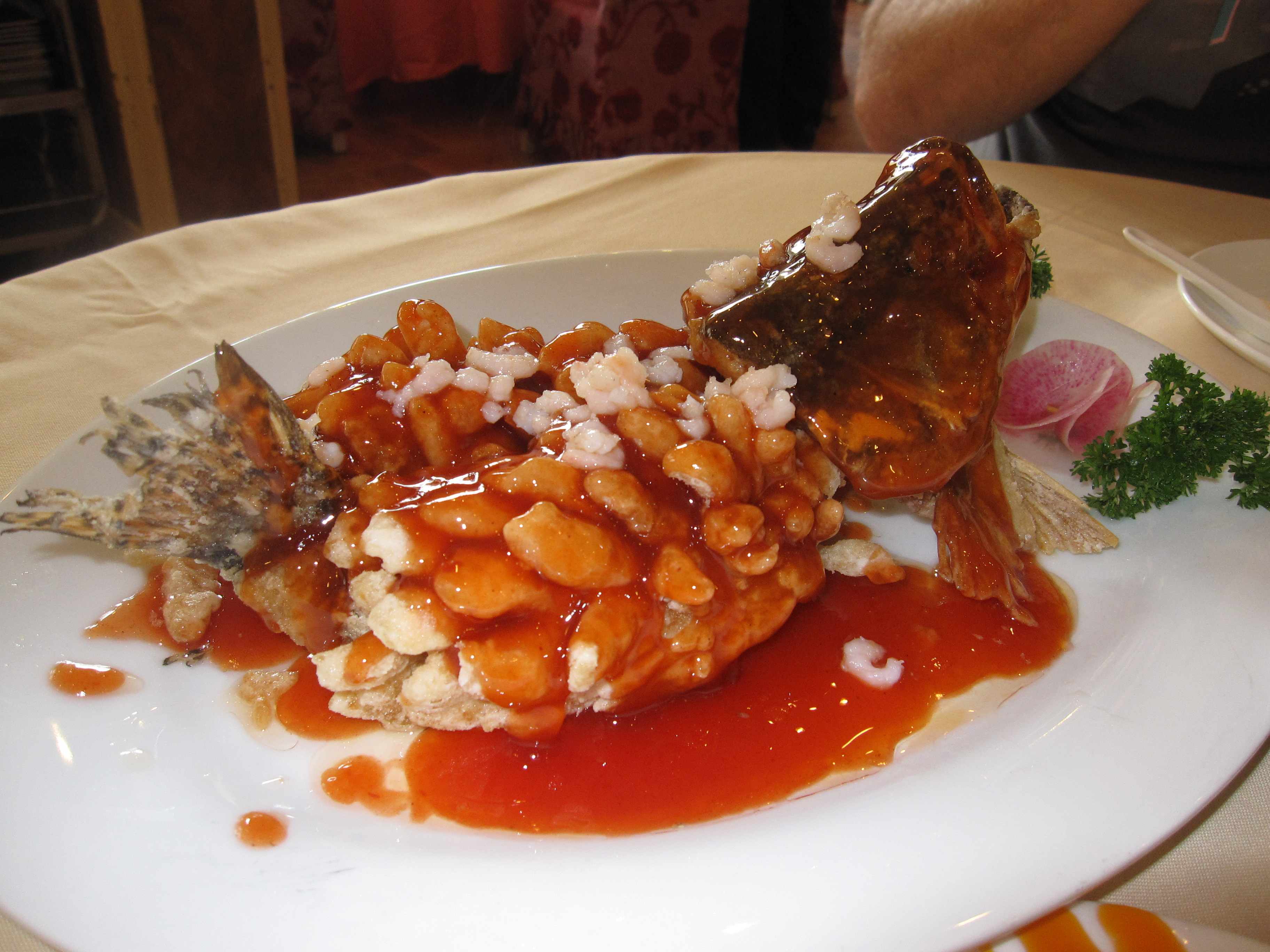 From Jiangsu province, the Squirrel-shaped Mandarin Fish has a crisp skin but soft centre. The fish body is scored such that it fans out when cooked, similar in appearance to a bushy squirrel tail. The fish is served with a sweet and sour sauce drizzled on top.